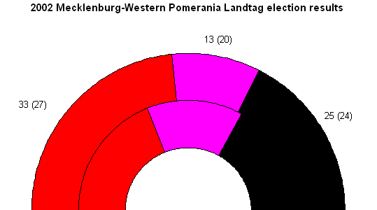 Results of the 2001 Landtag election in Mecklenburg-Western Pomerania SDP in red, PDS in purple, CDU in black Created by Willhsmit.